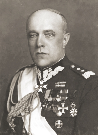 Polish General before and during World War II.